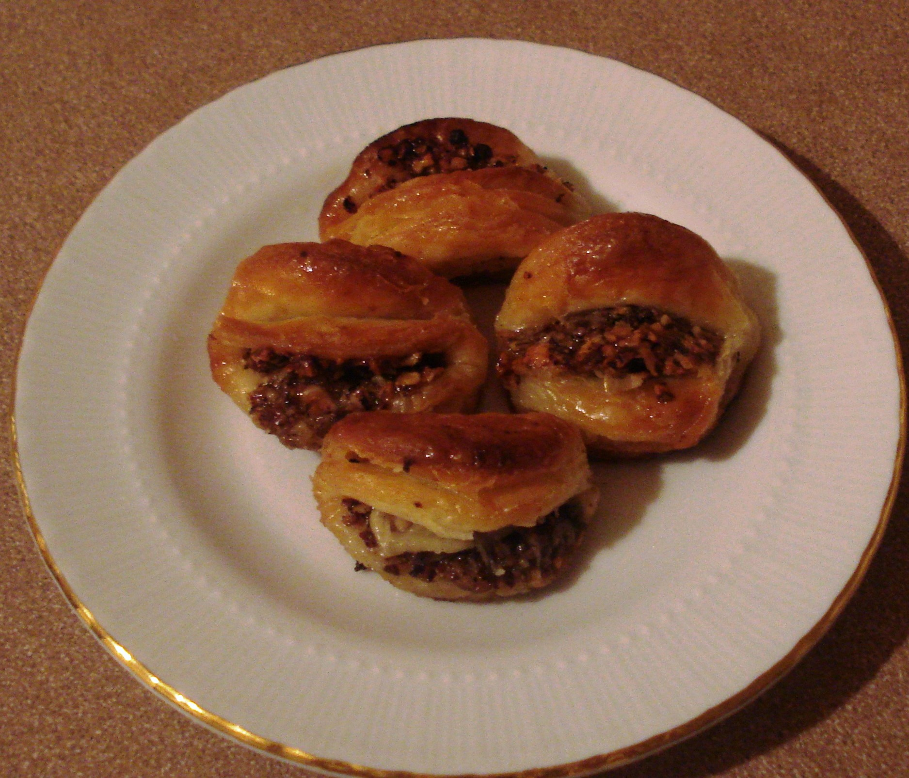 Dilber dudağı, a kind of dessert from Turkish cuisine